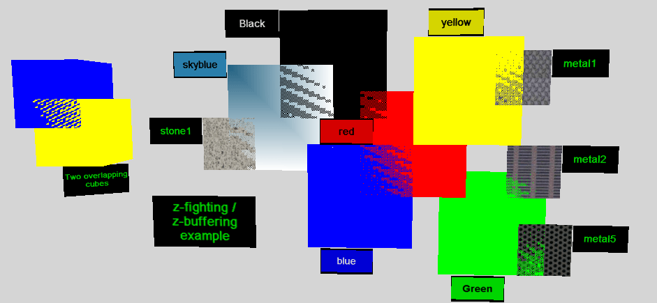 Zfighting demonstration in ActiveWorlds